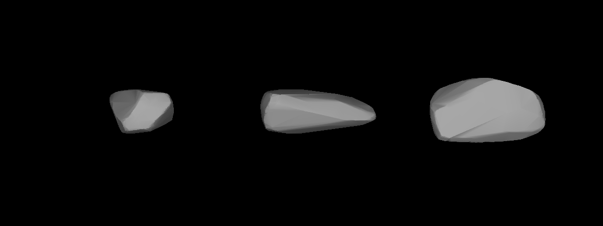 A three-dimensional model of 1905 Ambartsumian that was computed using light curve inversion techniques.